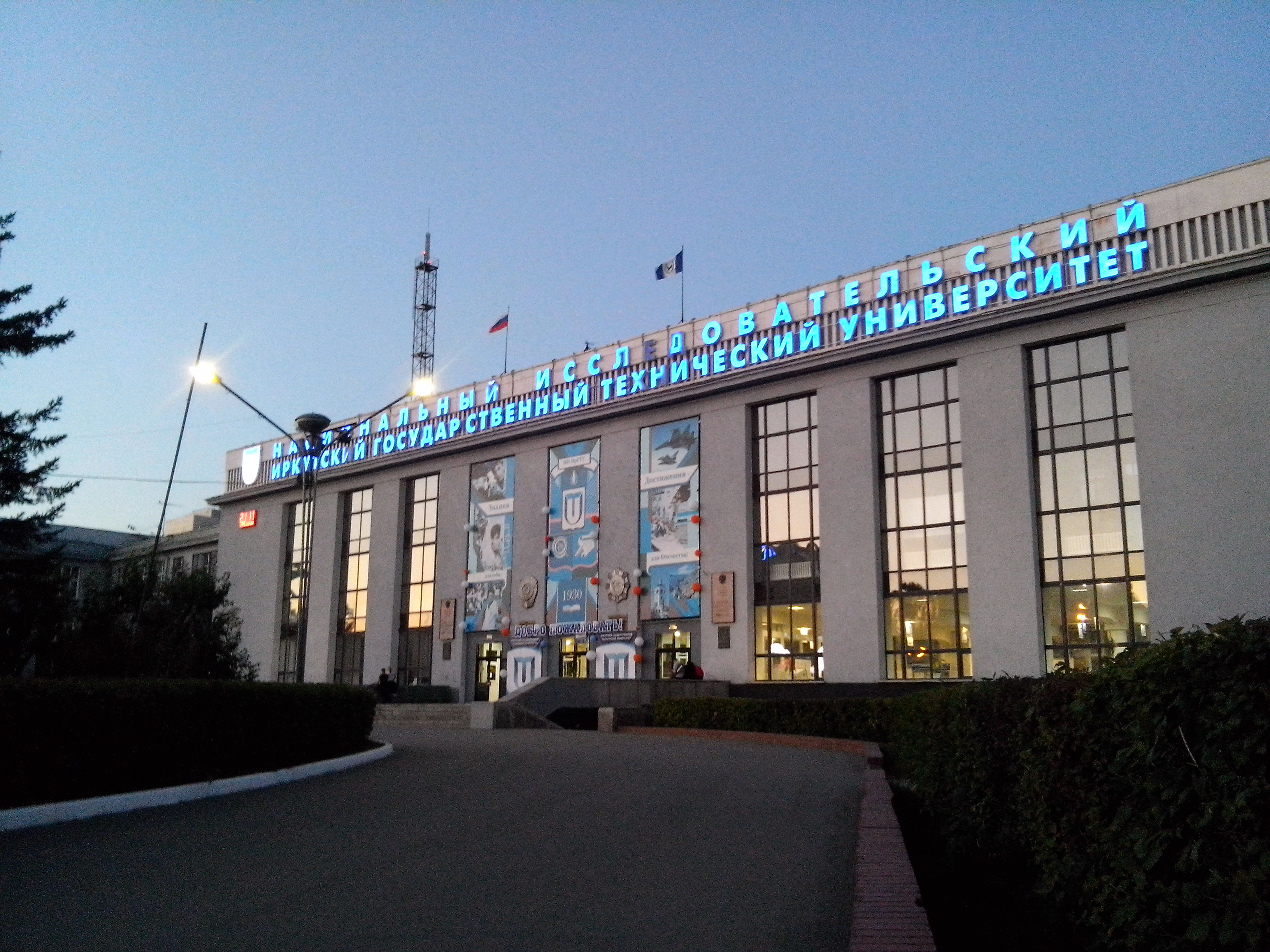 The photograph of the building of National research Irkutsk state technical University.